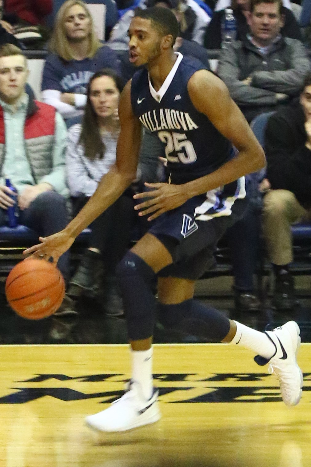 Mikal Bridges for the w:2016–17 Villanova Wildcats men's basketball team at Allstate Arena